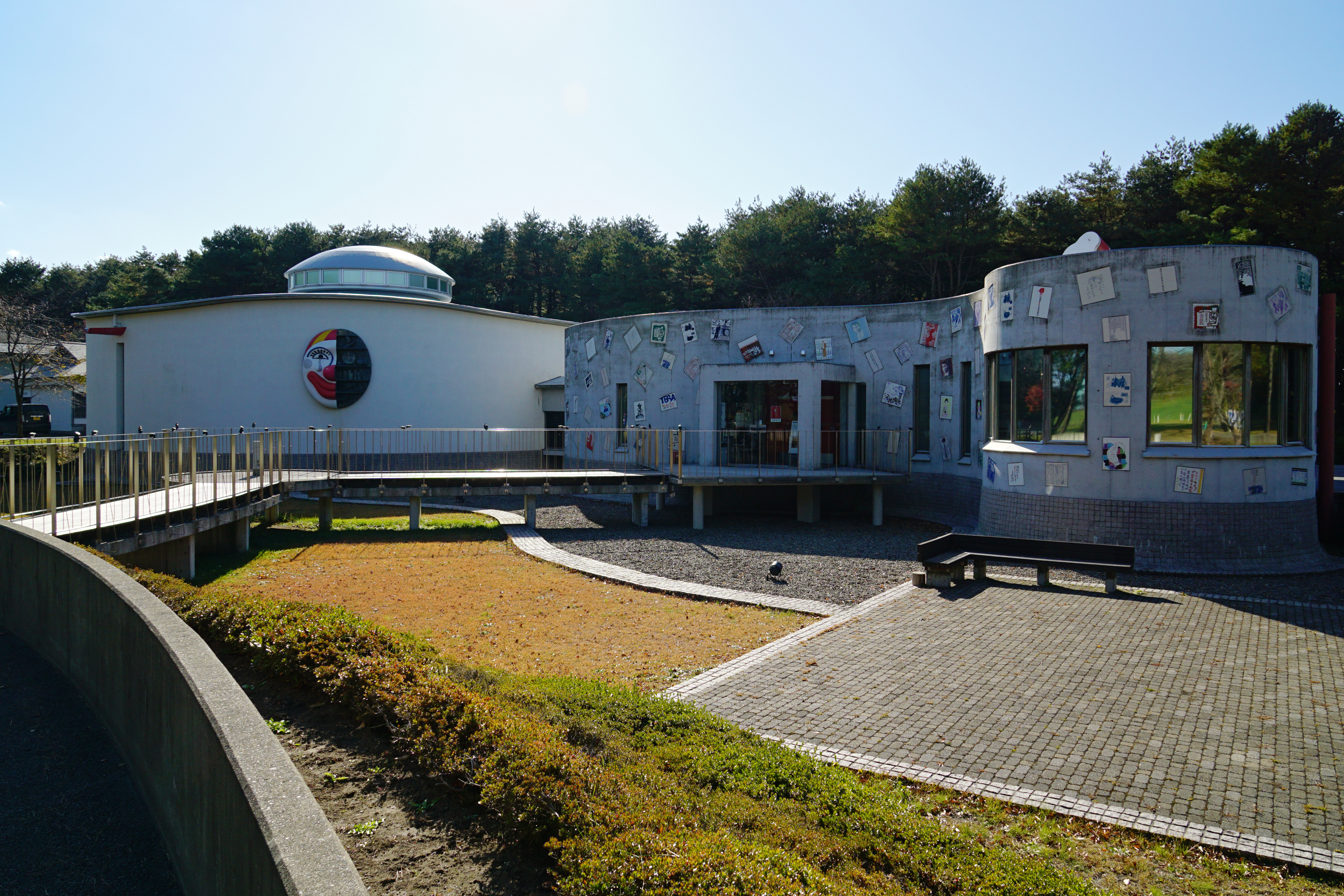 Shuji Terayama Museum in Misawa, Aomori prefecture, Japan.